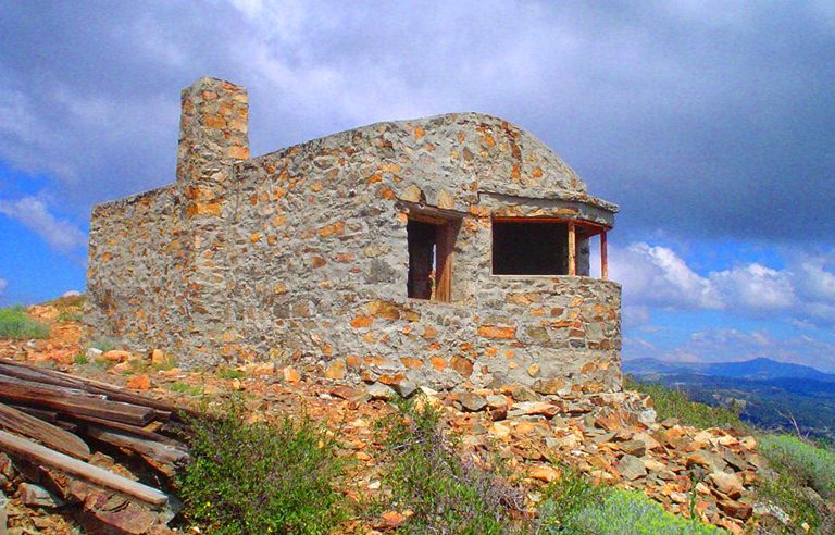 The Southern Pacific Railroad's stone fire lookout station on Red Mountain above Cisco, CA, built in 1909. Lookouts were stationed in this location from 1876 until it was abandoned in 1934 to watch for fires in the wooden snowsheds covering the CPRR/SPRR Sierra grade tracks between Blue Cañon and Donner Pass.